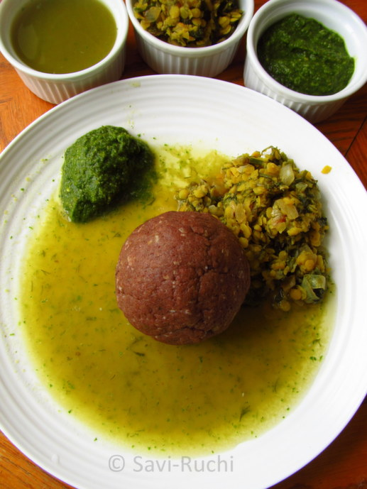 Upsaaru & Mudde is a staple food of farmers of Karnataka, especially Mysore/Mandya region. Though my mom used to make mudde very frequently, I did not know about upsaru until I moved to Mandya. I tried masoppu & upsaru for the first time at Mandya. My mom used to make something similar to upsaaru. She called it bassaru, meaning basida saru . The literal meaning of basida saaru is "drained water" or "vegetable stock rasam/soup".